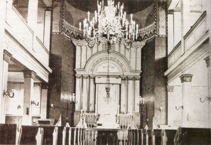 Nordhausen (Thuringia - Germany) synagogue